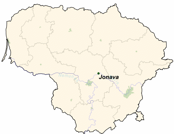 Jonava on the map of Lithuania